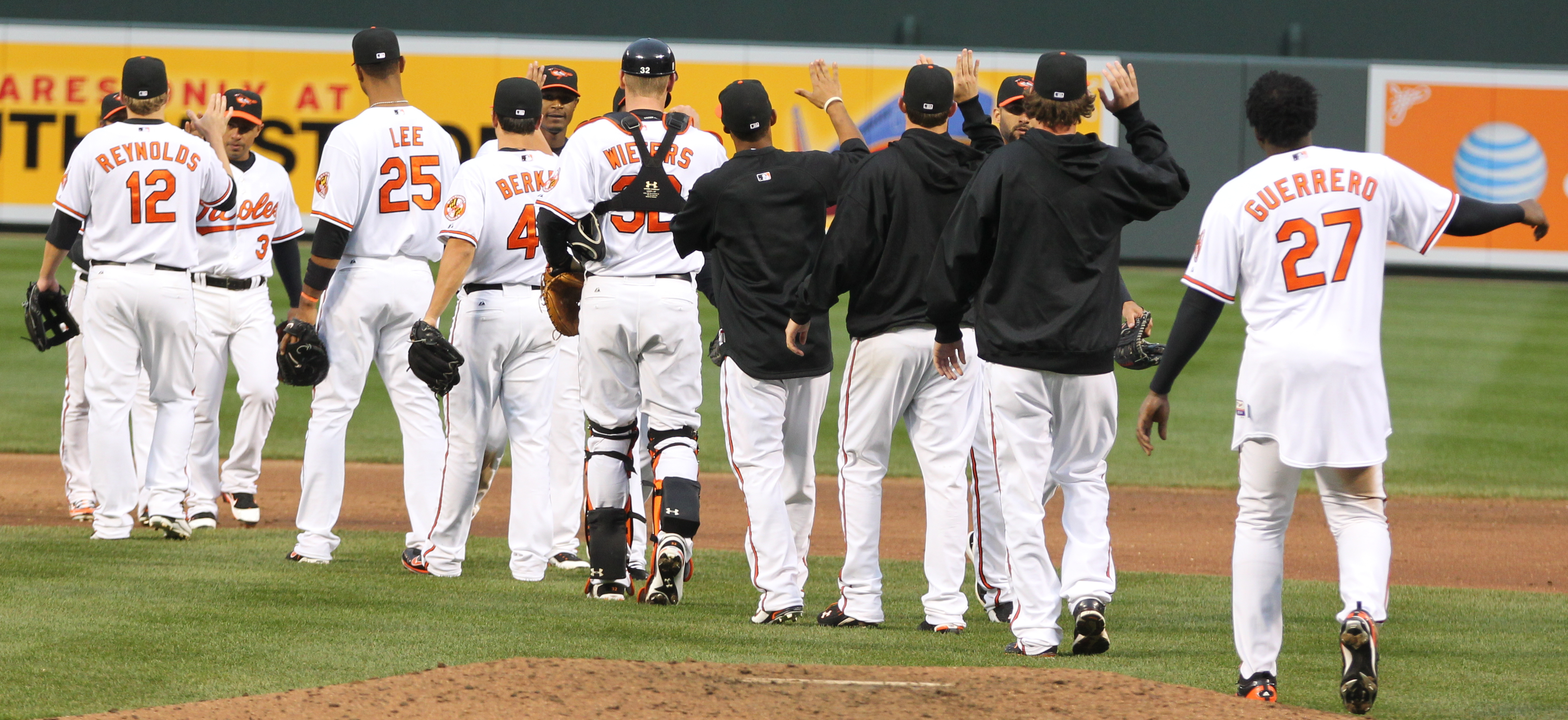 Baltimore Orioles v/s Texas Rangers April 9, 2011